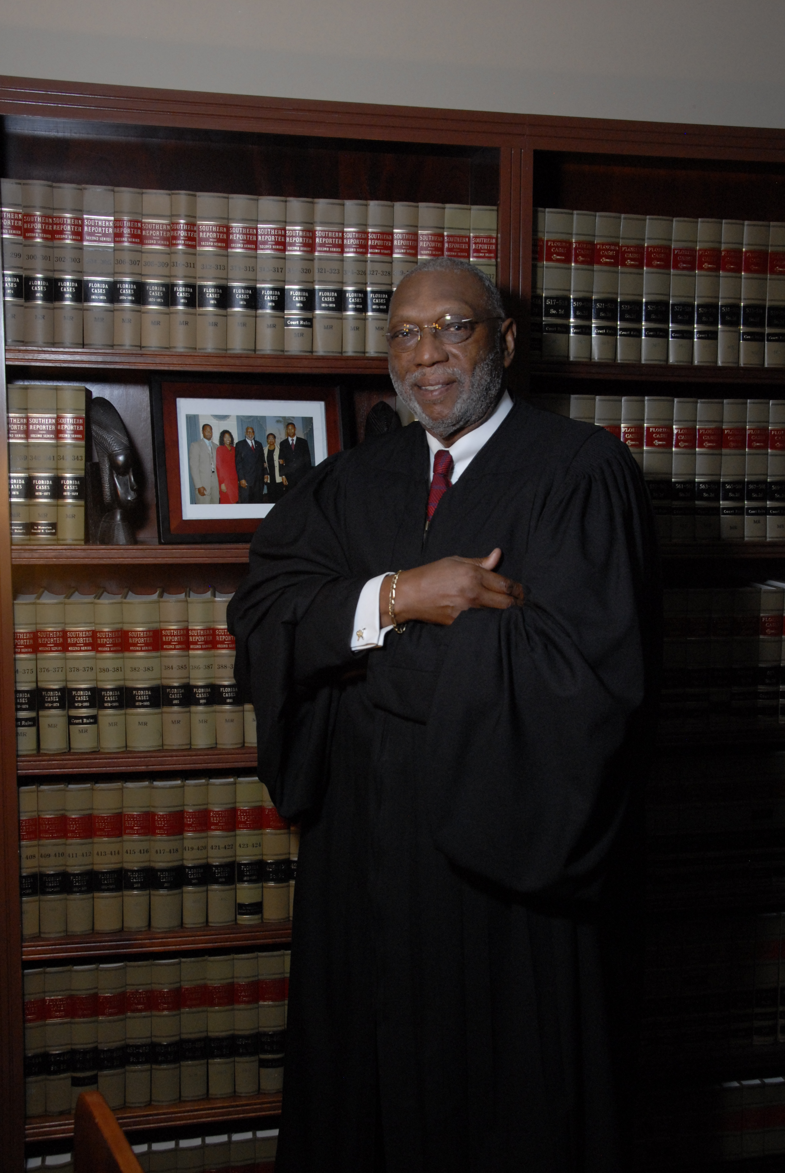 Retired Florida Supreme Court Justice James E. C. Perry